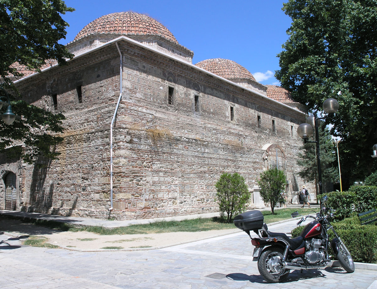 Archaeological museum in a Turkish building in Serres, Greece. Photography taken by Marsyas on 07/31/2004.